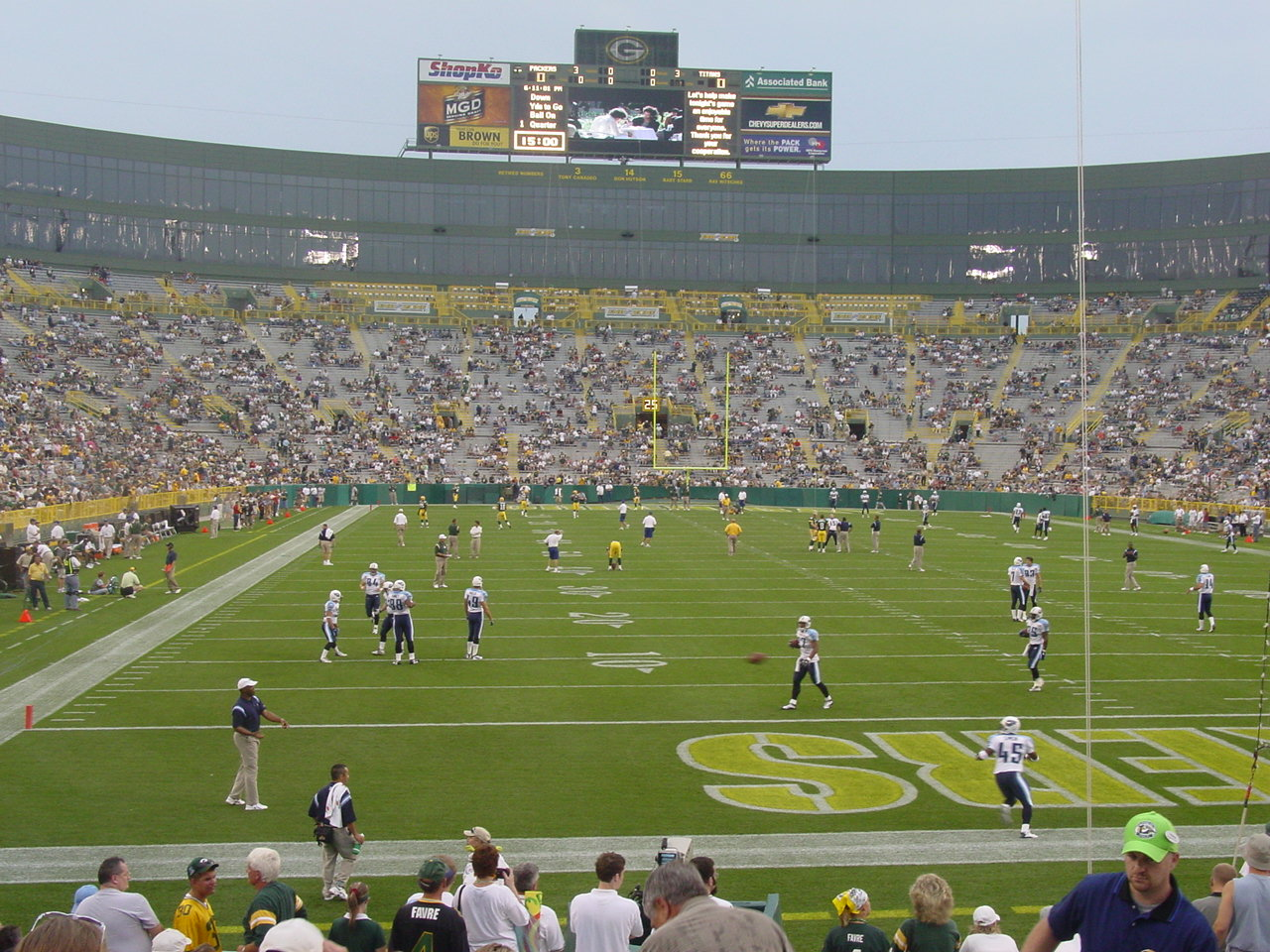 Tennessee Titans players warm up for their August 28, 2003 American football preseason game at the Green Bay Packers. Original description A nice little shot of the field, or something